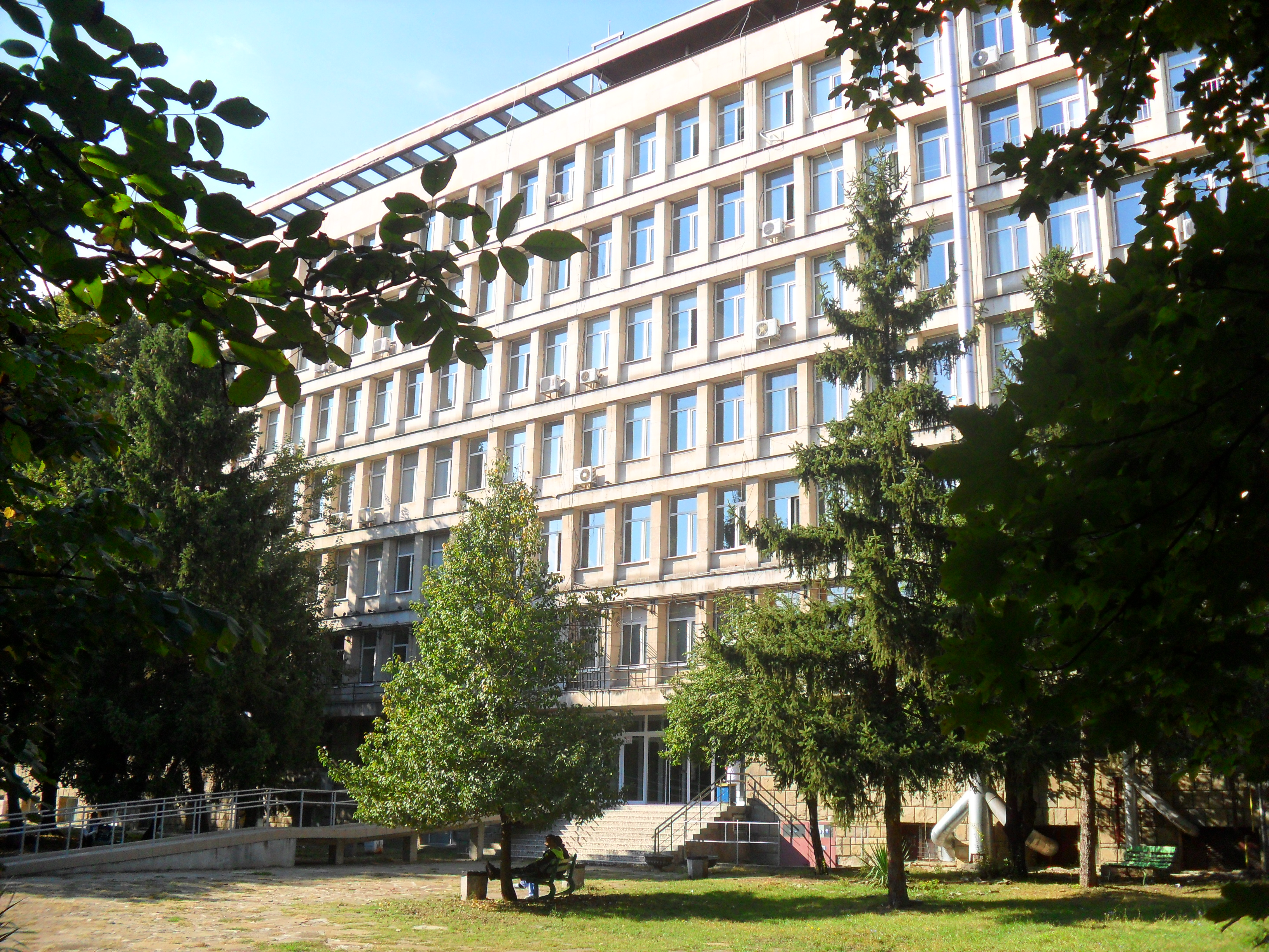 Medical center in Veliko Tarnovo